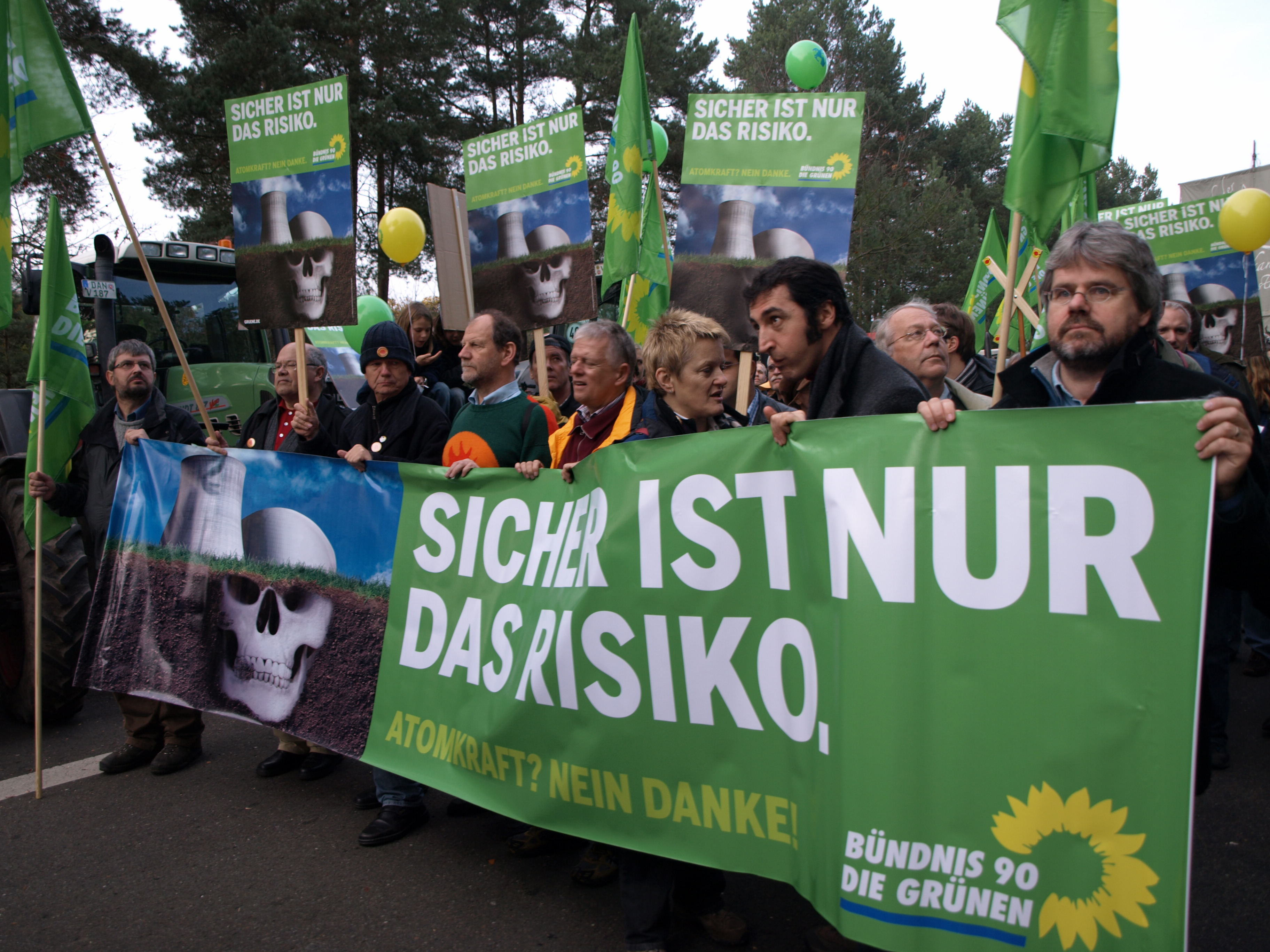 Bündnis 90/Die Grünen protest against nuclear energy near nuclear waste disposal centre Gorleben in northern Germany where a trainload of treated waste arrived from France. The signs say, "Only the risk is certain. Atomic power? No, thanks.!"